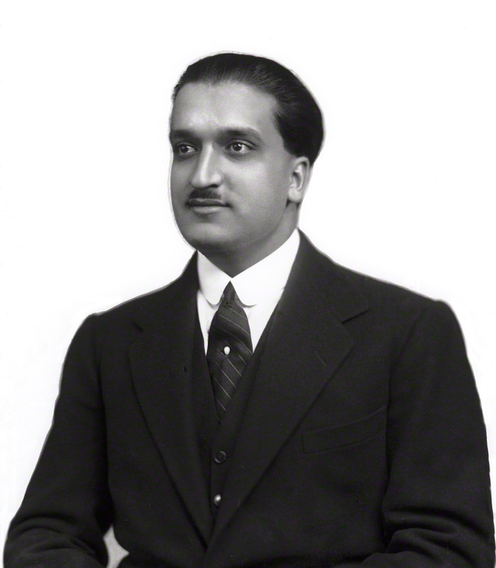 Sir Hari Singh Bahadur (1895-1961), Maharaja of Jammu and Kashmir, 1920.